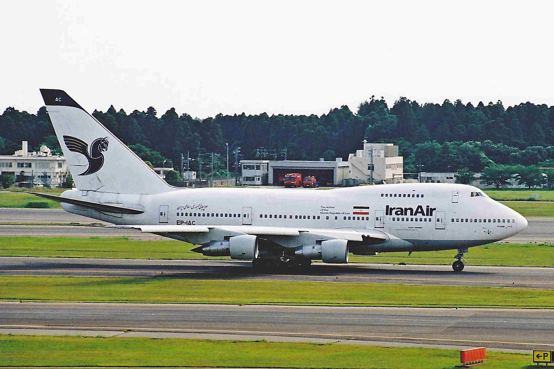 "Fars" remains airworthy as of 2014.